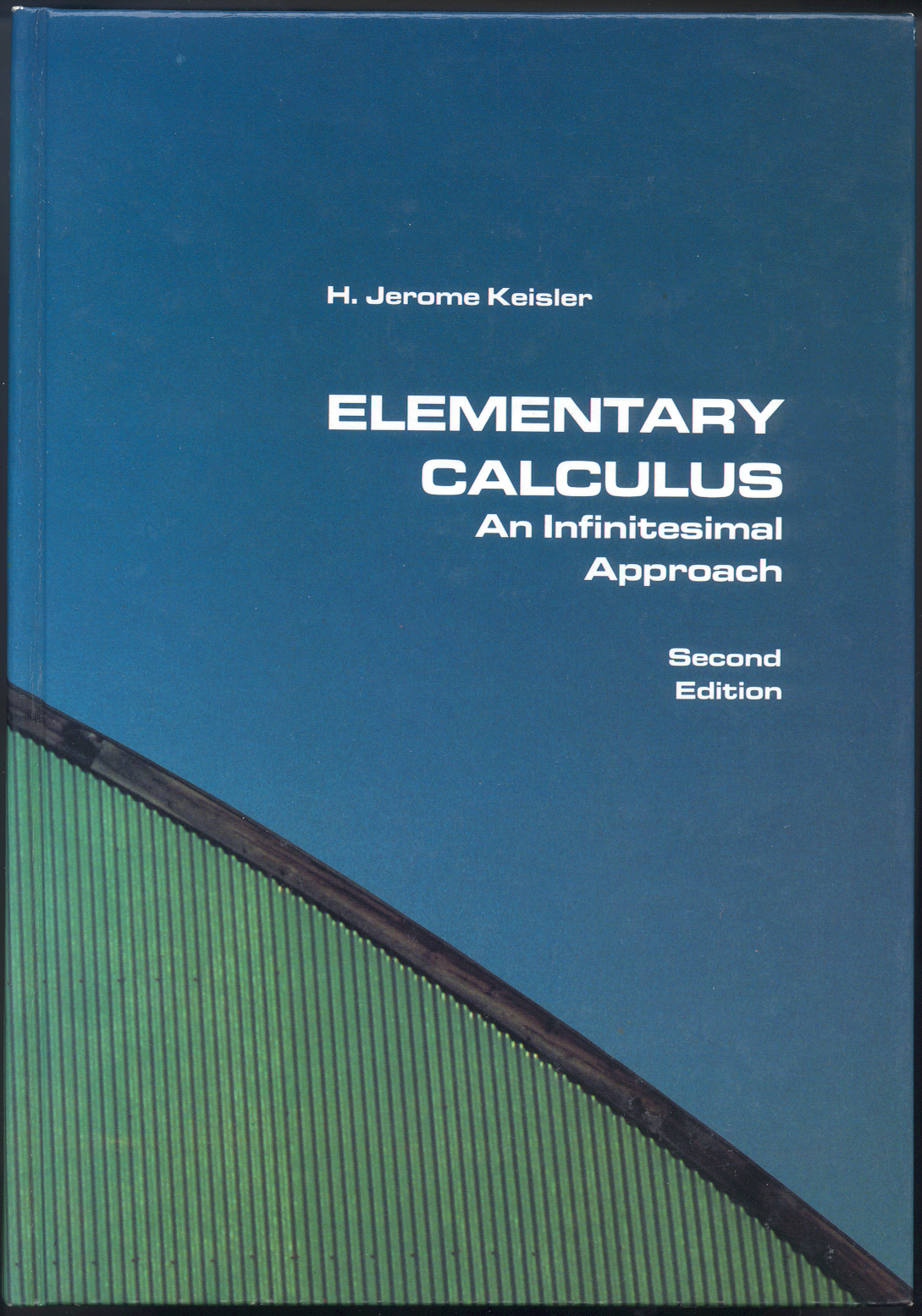 Book cover of Elementary Calculus: And Infinitesimal Approach